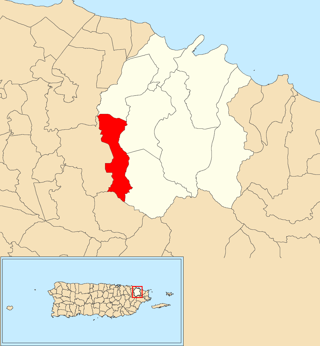 Ciénaga Alta, Río Grande, Puerto Rico locator map